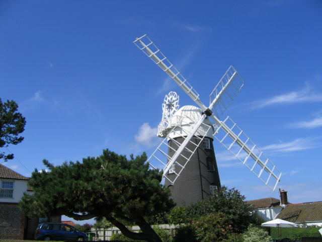 The restored Stow Mill, Paston